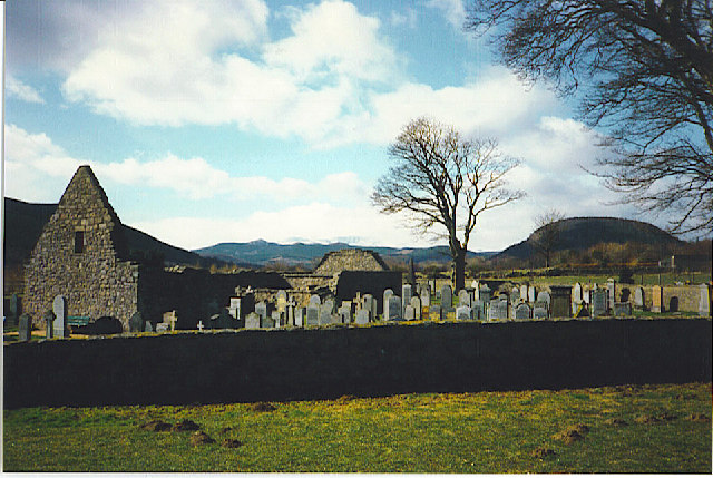 Tullich Kirk, by Ballater, Aberdeenshire